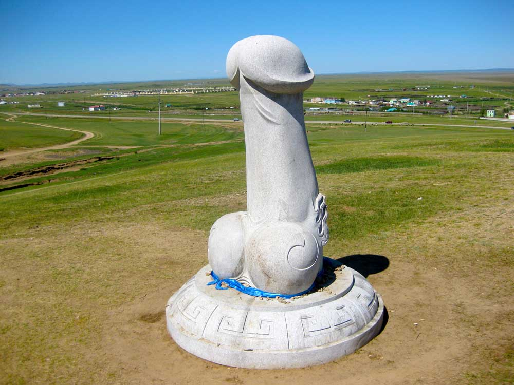 The big fallos of Kharhorin